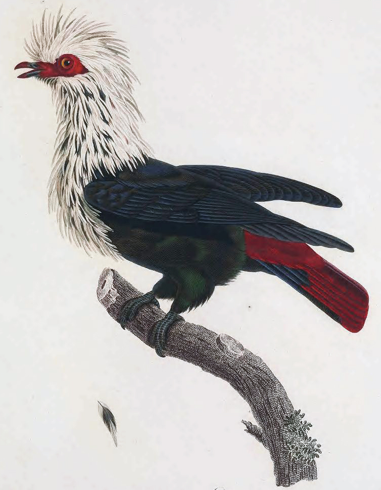 Colombe Hérissée, mâle (Columba Francix) Madame Antoinette Pauline Jacqueline Knip, née Courcelles (1781-1851) and Coenraad Jacob Temminck (1778-1858). Les Pigeons. Paris: Mame for Madame Knip and Garneray, (1808-1811). By César Macret after Madame Knip, printed in colours by Millevoy and finished by hand.